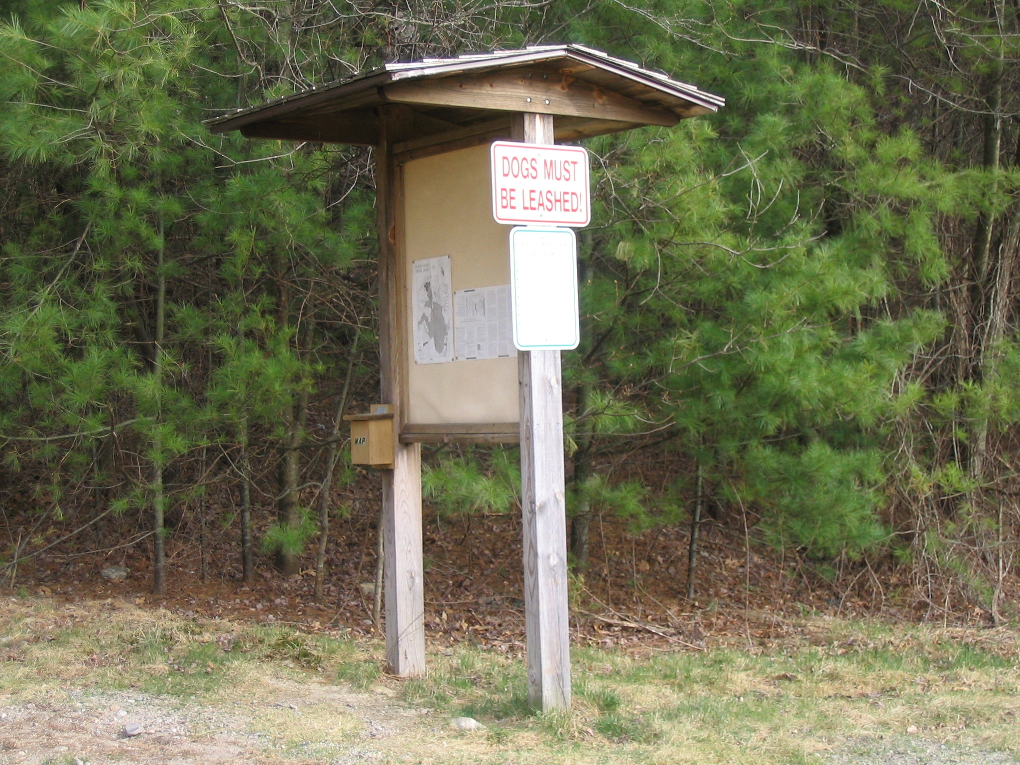 Trailhead